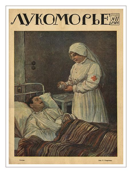 Cover der Zeitschrift "Lukomorye"